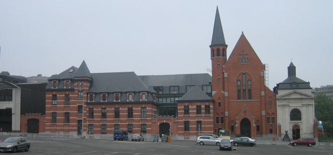 Convent Van Maerlant, Central Library of the European Commission (Brussels)